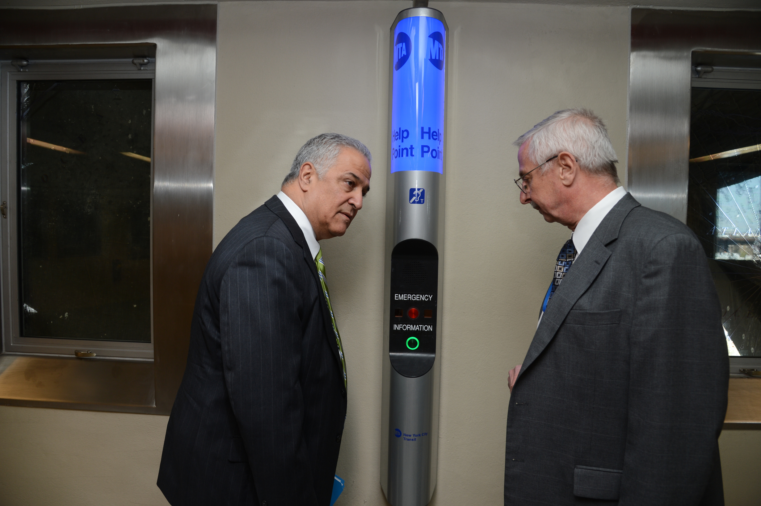 After a two-year rehabilitation project, Brooklyn’s Smith-9 Sts Station reopened on Fri., April 26, 2013, restoring F and G service to the Red Hook, Gowanus and Carroll Gardens communities. The 79-year-old facility—the world's highest subway station at nearly 88 feet—underwent a ground up renewal over the course of 22 months. Work began in 2011 in conjunction with the rebuilding of the Culver Viaduct. (Photo: MTA New York City Transit / Marc A. Hermann)